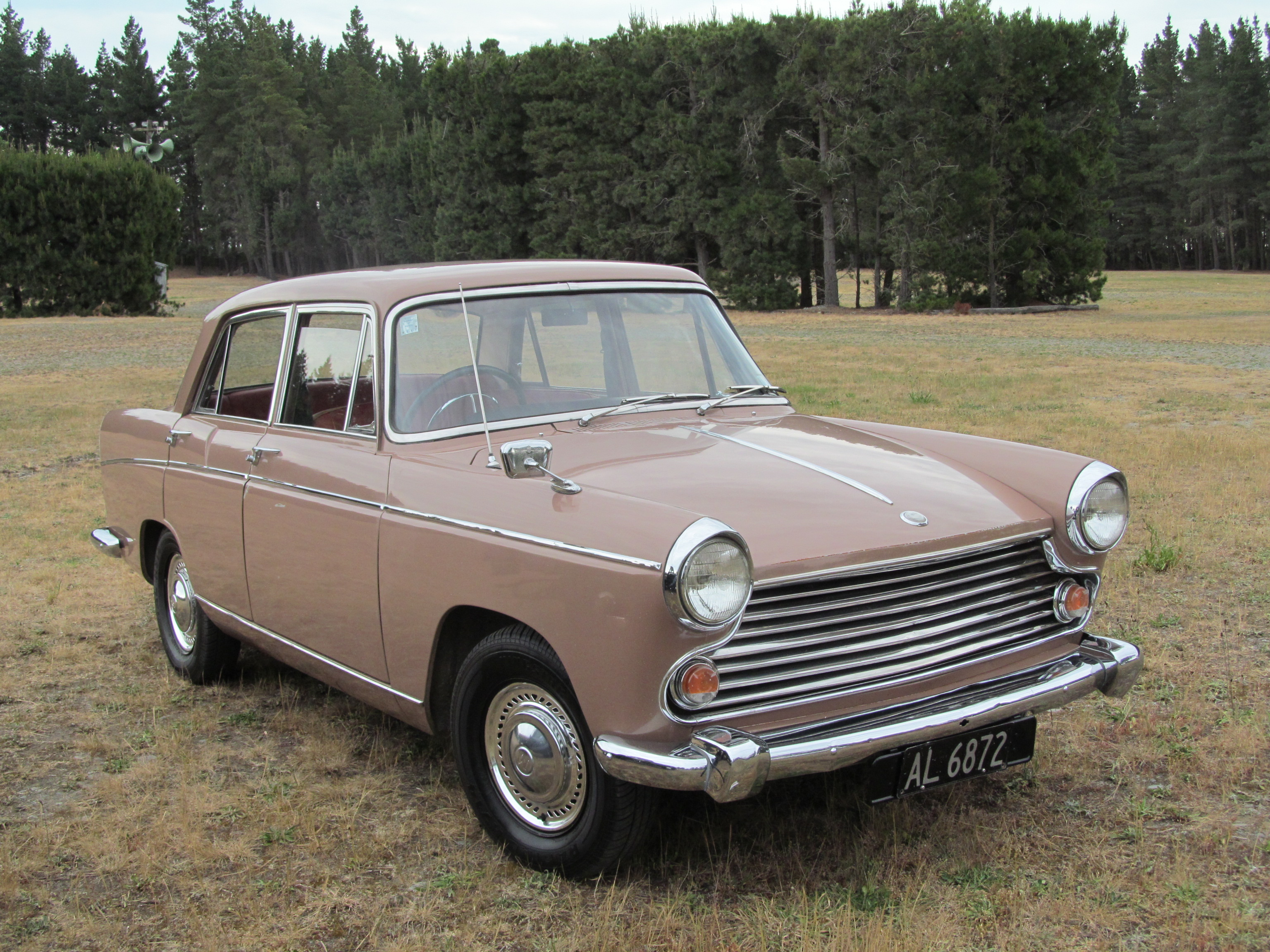 I really liked the colour of this immaculate Farina, and this shot turned out really well too - it was quite an overcast day and the forest-y background seemed to fit in nicely.